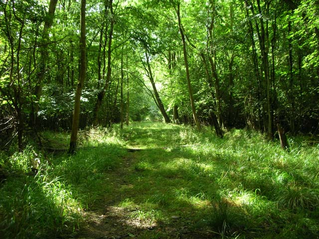 Footpath through Banhaw Wood. The path connects Lower Benefield with Lyveden